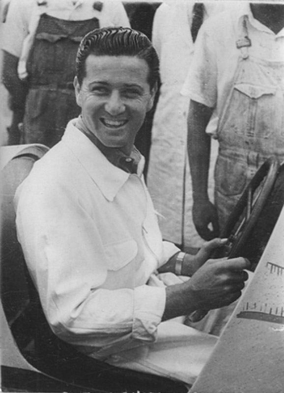 Clemar Bucci, Argentine race car driver